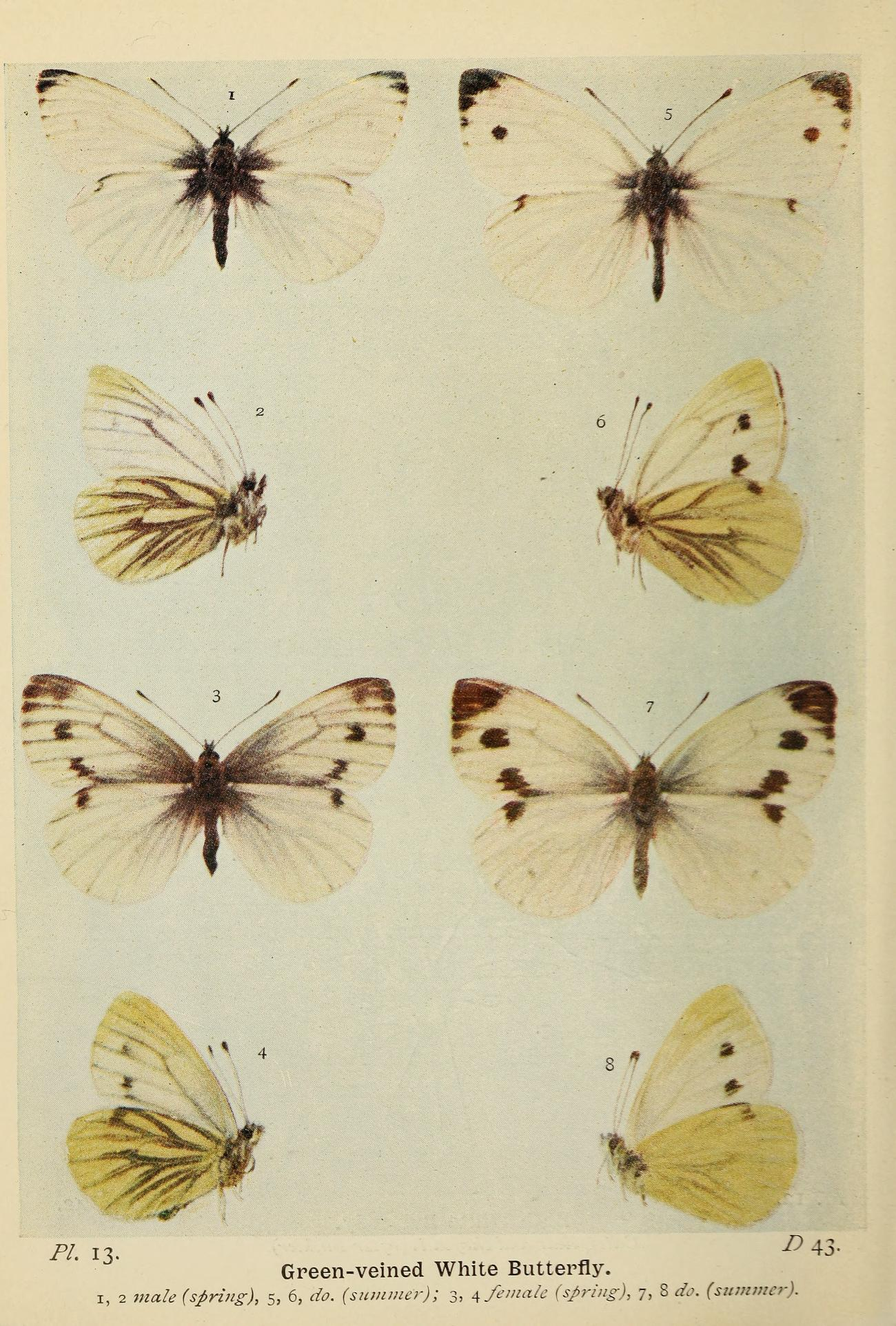 South1906Plate13